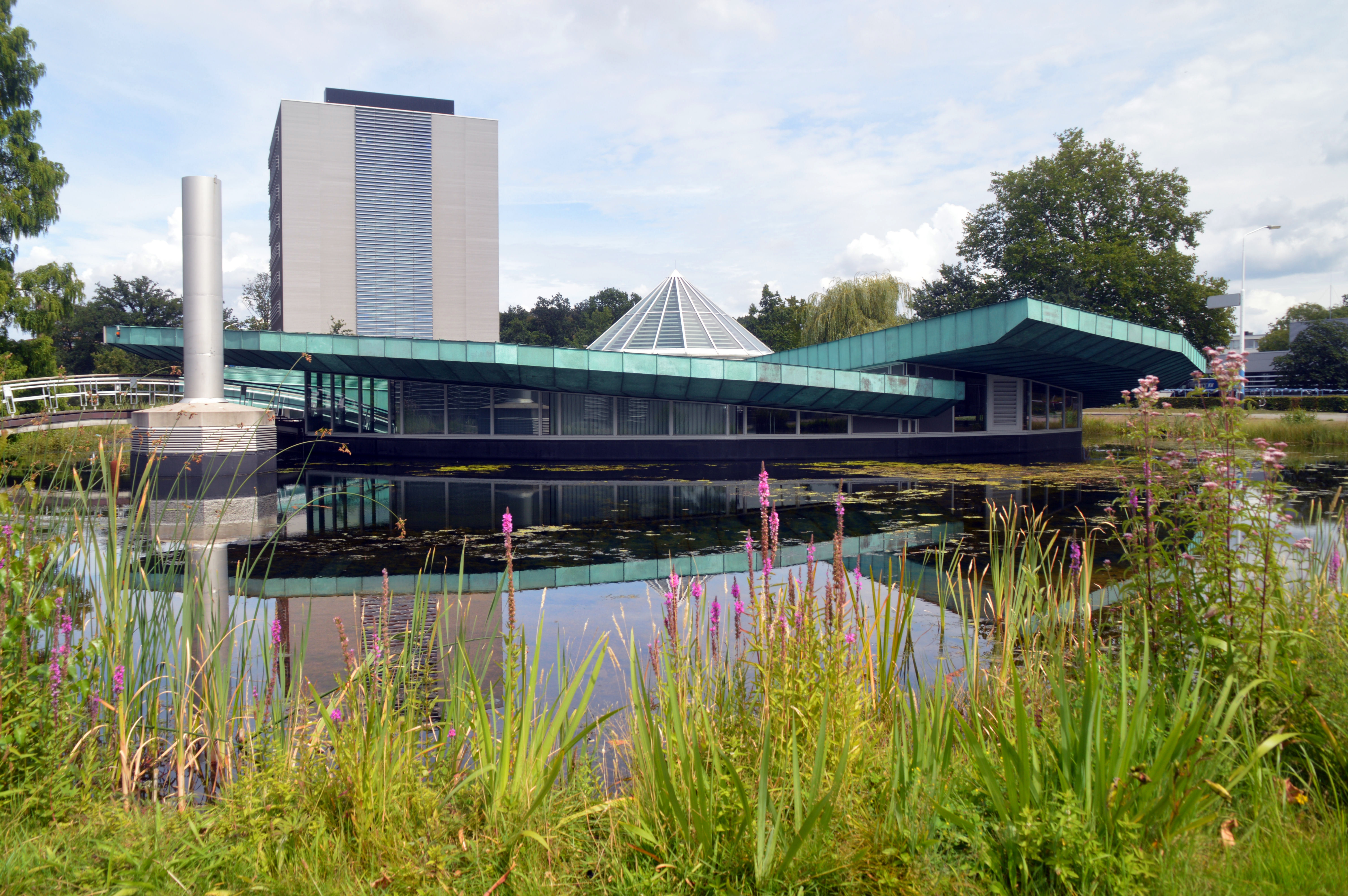 The Goudsmit Pavilion for Nuclear Magnetic Resonance research NMR pavilion Radboud University Nijmegen